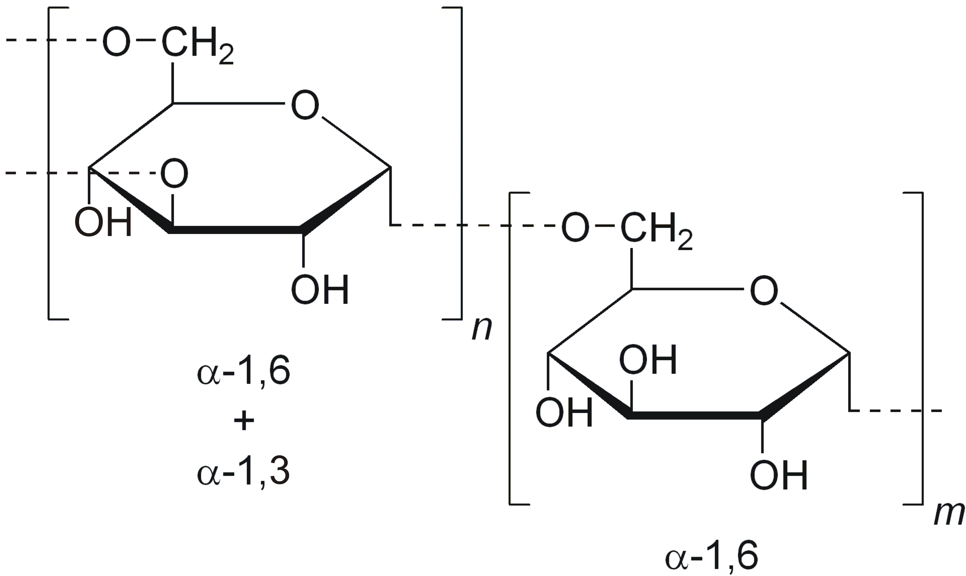 Chemical structure of dextran.